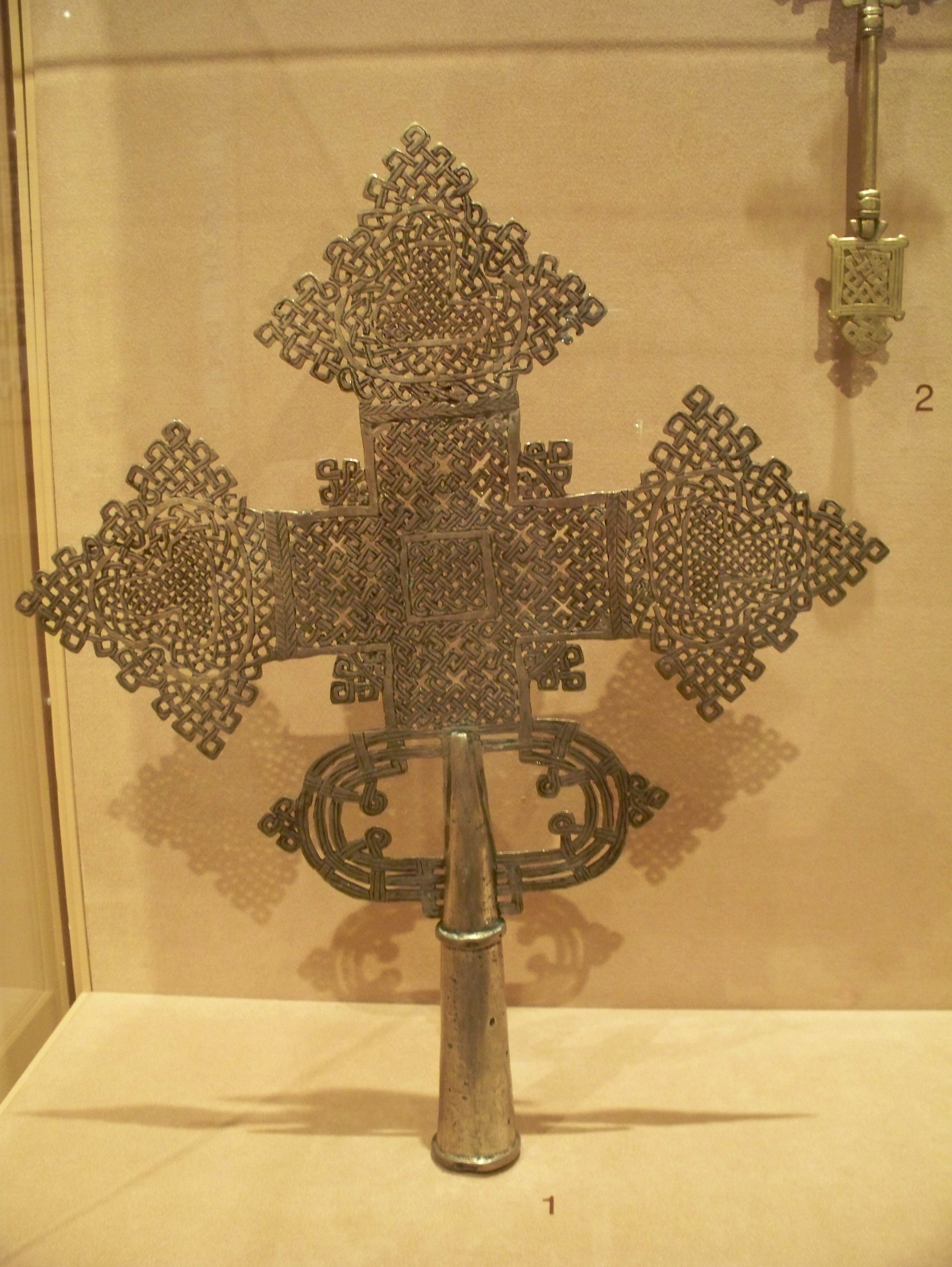 processional Christian cross Nationality Ethiopian Creation date about 1900 Materials brass, silver plating Dimensions 17 1/4 x 14 x 1 1/2 in. Credit line E. Hardy Adriance Fine Arts Acquisition Fund in memory of Marguerite Hardy Adriance Accession number 1998.72 The Christian Church in Ethiopia, which became the established church in the 4th century, offers a variety of crosses. Processional crosses, the largest and most elaborate type, have a hollow shaft so that they may be mounted on tall poles and carried by priests during religious ceremonies. These crosses are often decorated with bright colored cloths that allow people to see them clearly, thus becoming a symbolic marker to be followed by the faithful. This hand-held cross belonged to chiefs. The square base on both the wooden and the brass hand-held cross seen here allude to the tomb of Adam as well as the tomb from which Christ arose, symbolizing a rebirth of humanity. On the wooden cross, the human figures on each side of the handle illustrate the belief that Adam, the man, and Christ, who represents a "new" man, are connected. Wikipedia Loves Art at the Indianapolis Museum of Art This photo of item # 1998.72 at the Indianapolis Museum of Art was contributed under the team name "Opal_Art_Seekers_4" as part of the Wikipedia Loves Art project in February 2009. Indianapolis Museum of Art The original photograph on Flickr was taken by Forever Wiser—please add a comment to the original Flickr page whenever a use has been made on Wikipedia or another project. Project galleries on Flickr: this institution, this team